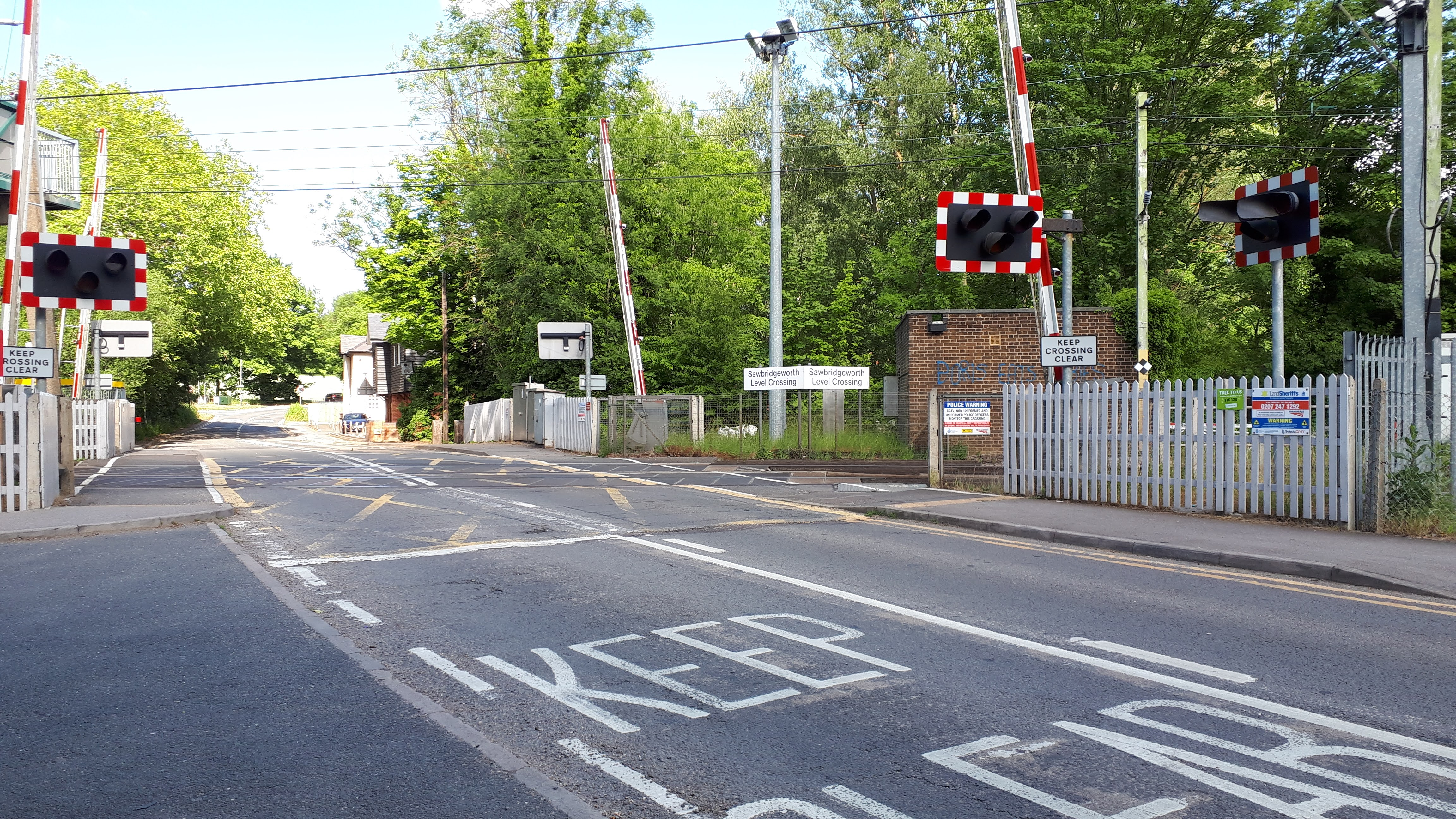 This is the level crossing at the south of Sawbridgeworth station, known as 'Sawbridgeworth Level Crossing'